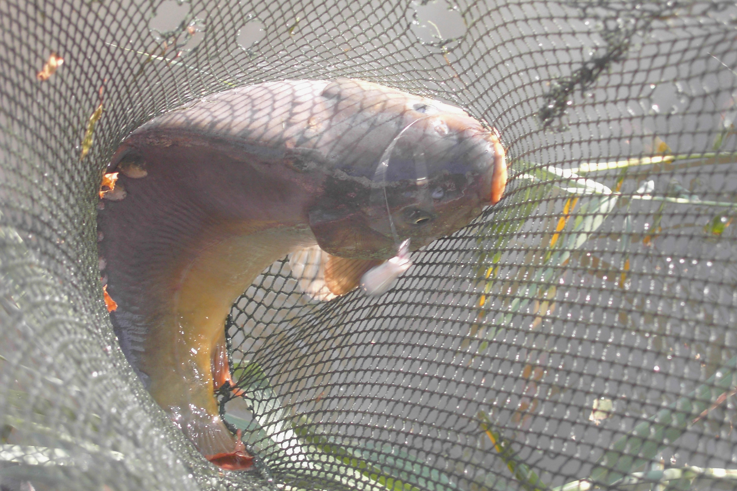 Carp in landing net